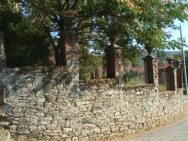 Retaining wall of the villa's garden